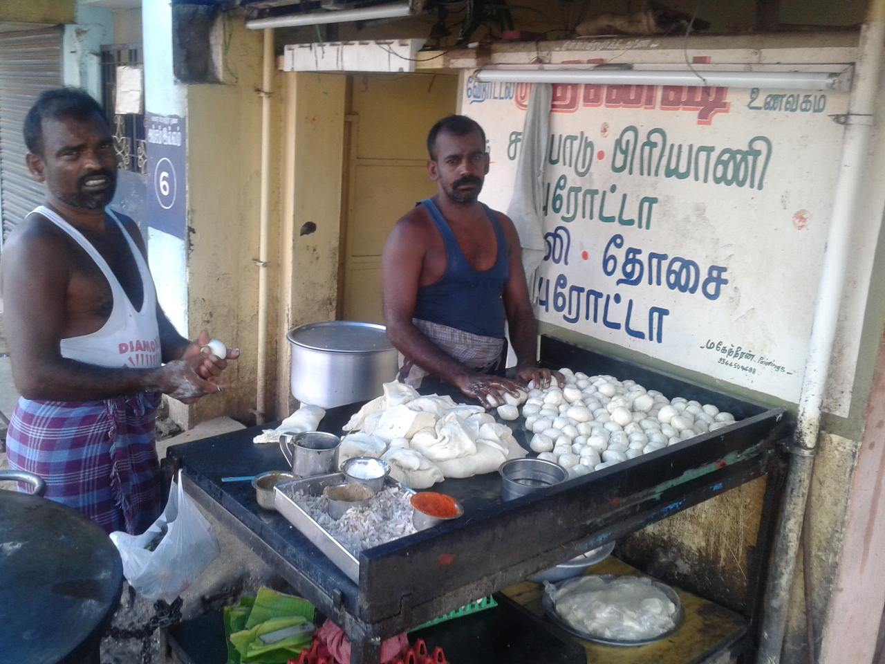 2 men are preparing a dish called 'Parotta' in a hotel.